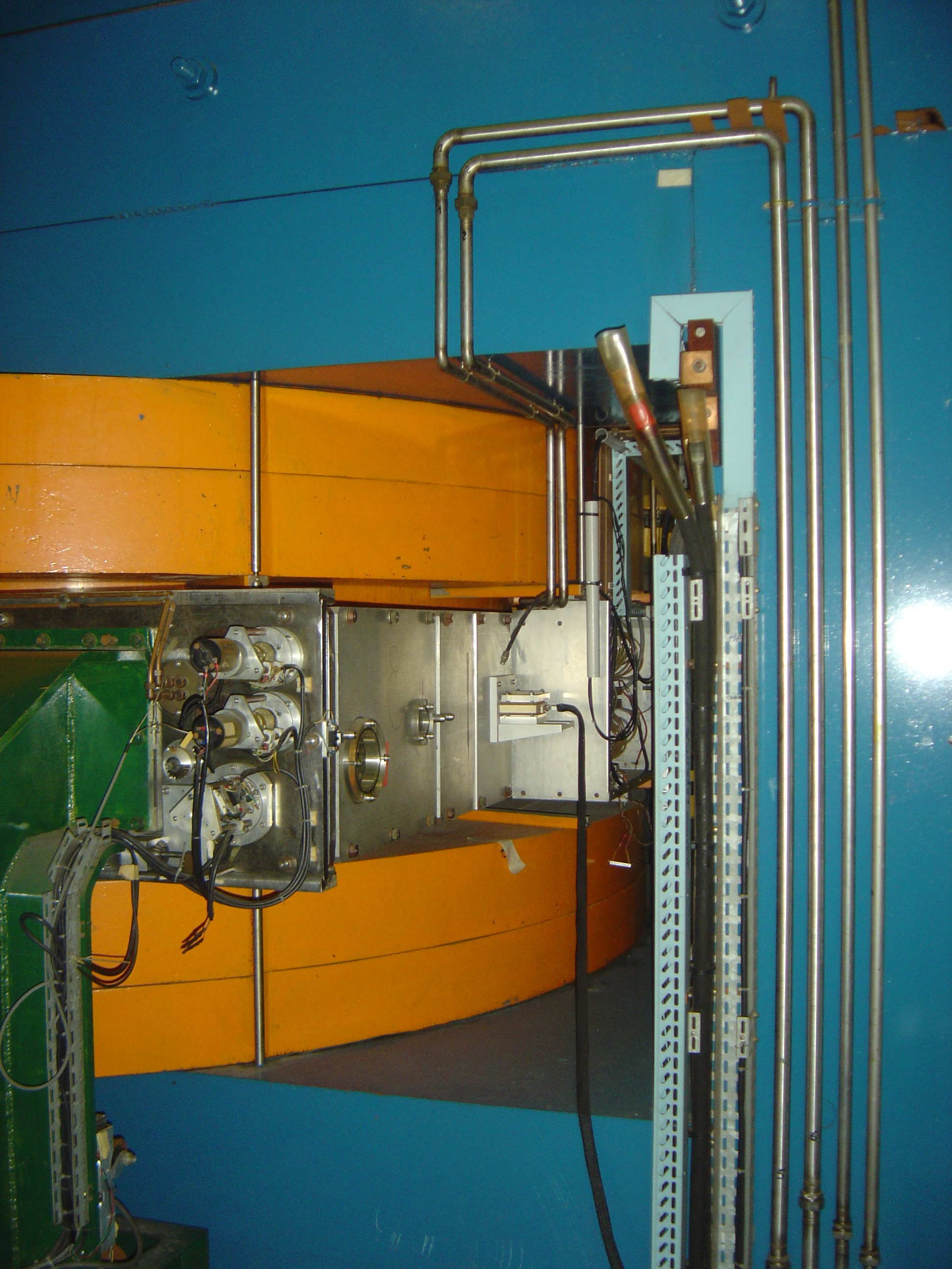 Magnet of the synchrocyclotron at the Orsay proton therapy center